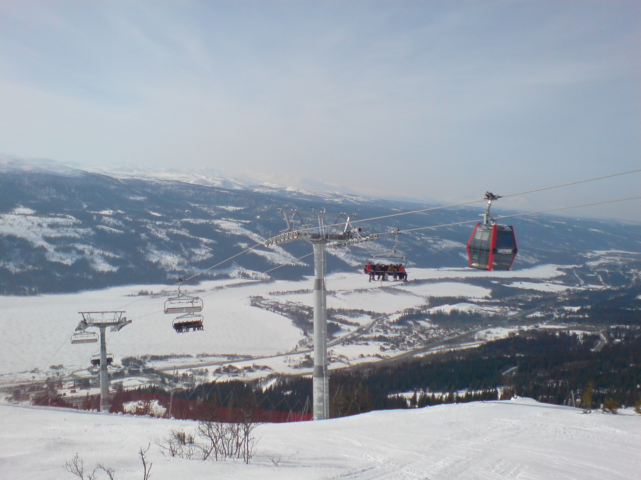 Telemixlift "VM8:an" in Åre